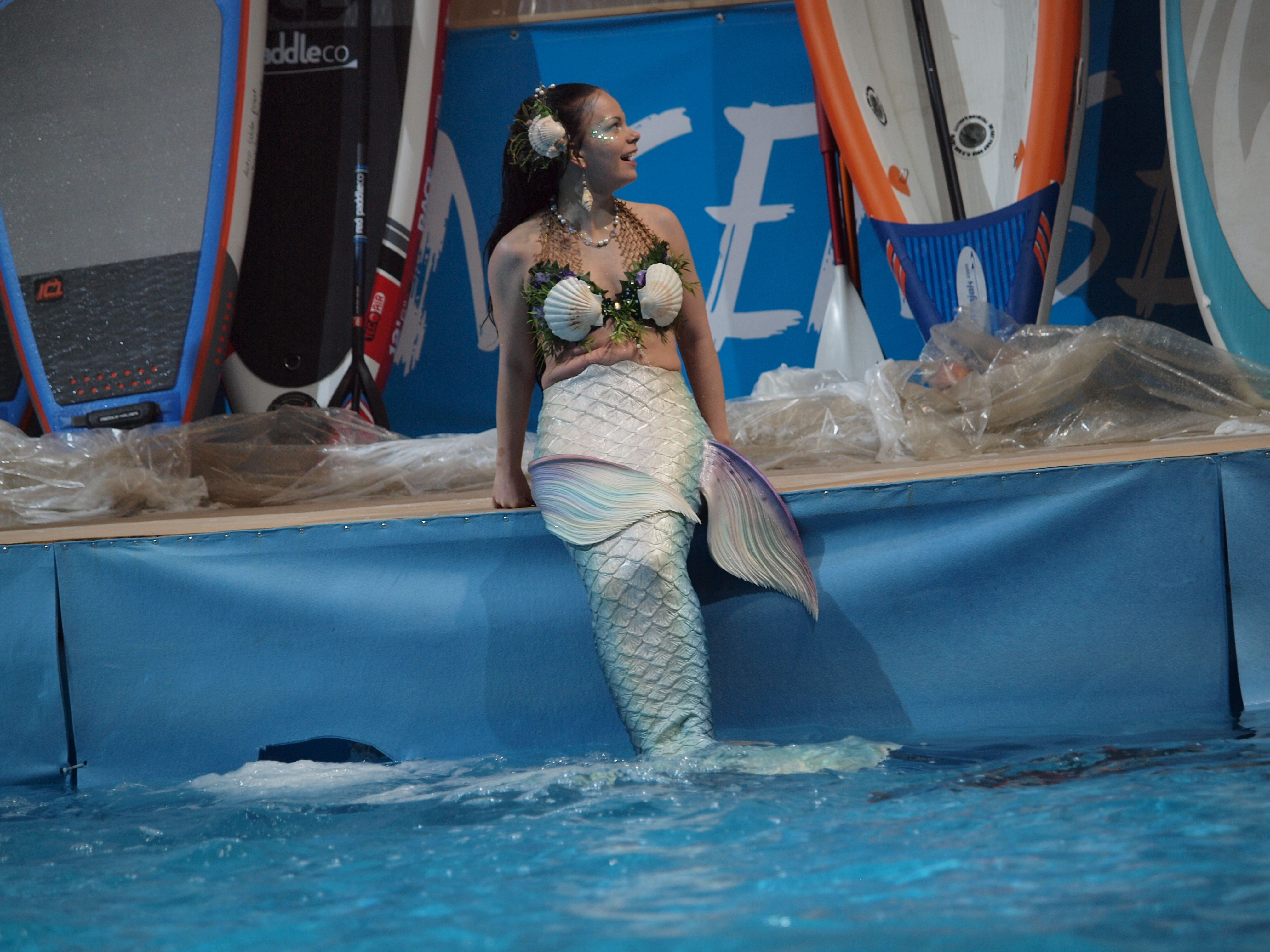 DoubleBubble Mermaids, an entertainer duo consisting of Mermaid Riia and Mermaid Nerissa, performing at the Helsinki International Boat Show 2016 at the Helsinki Fair Centre in Helsinki, Finland. Uploaded with permission from the performers.